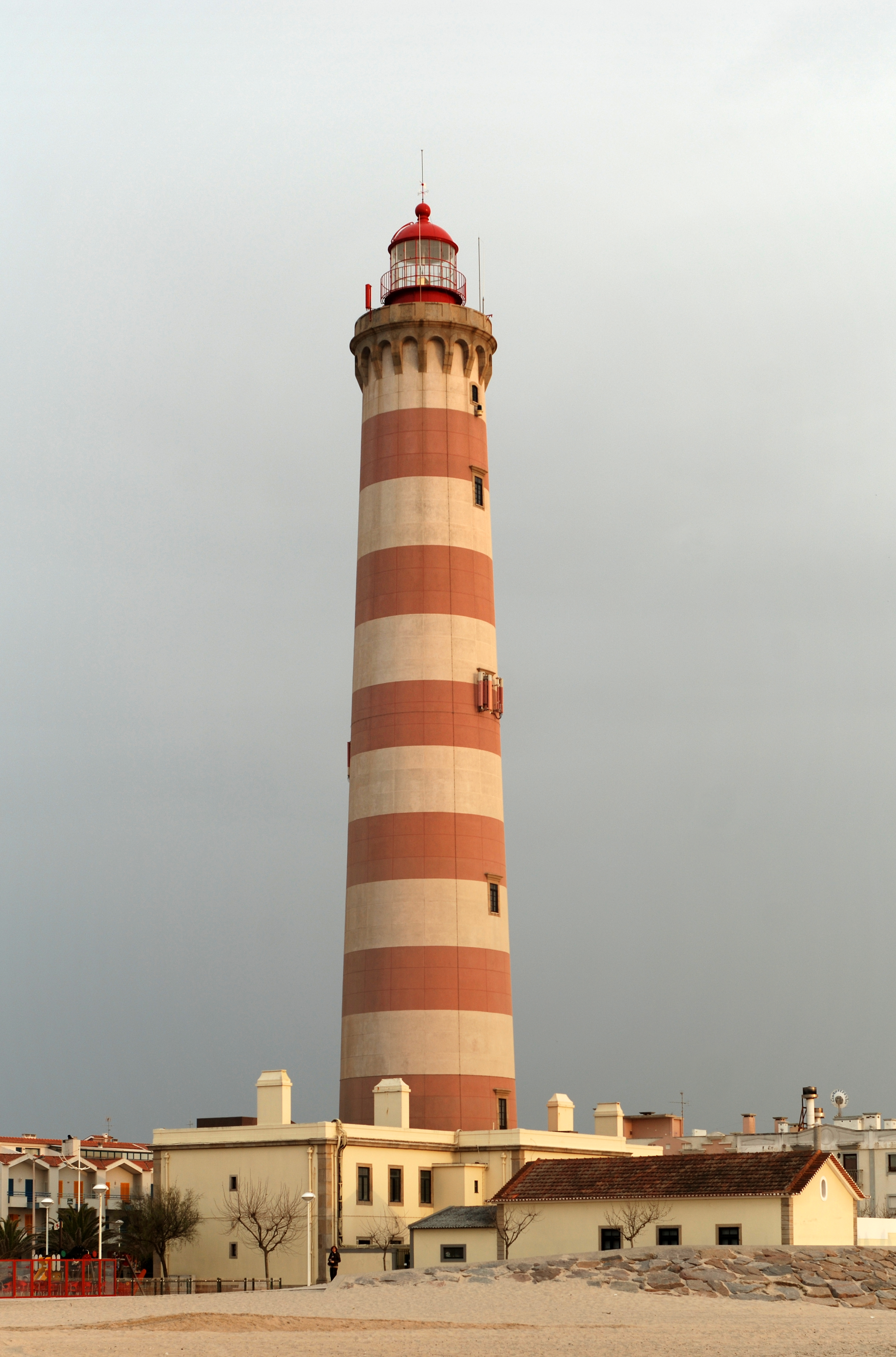 Aveiro lighthouse, west coast of Portugal